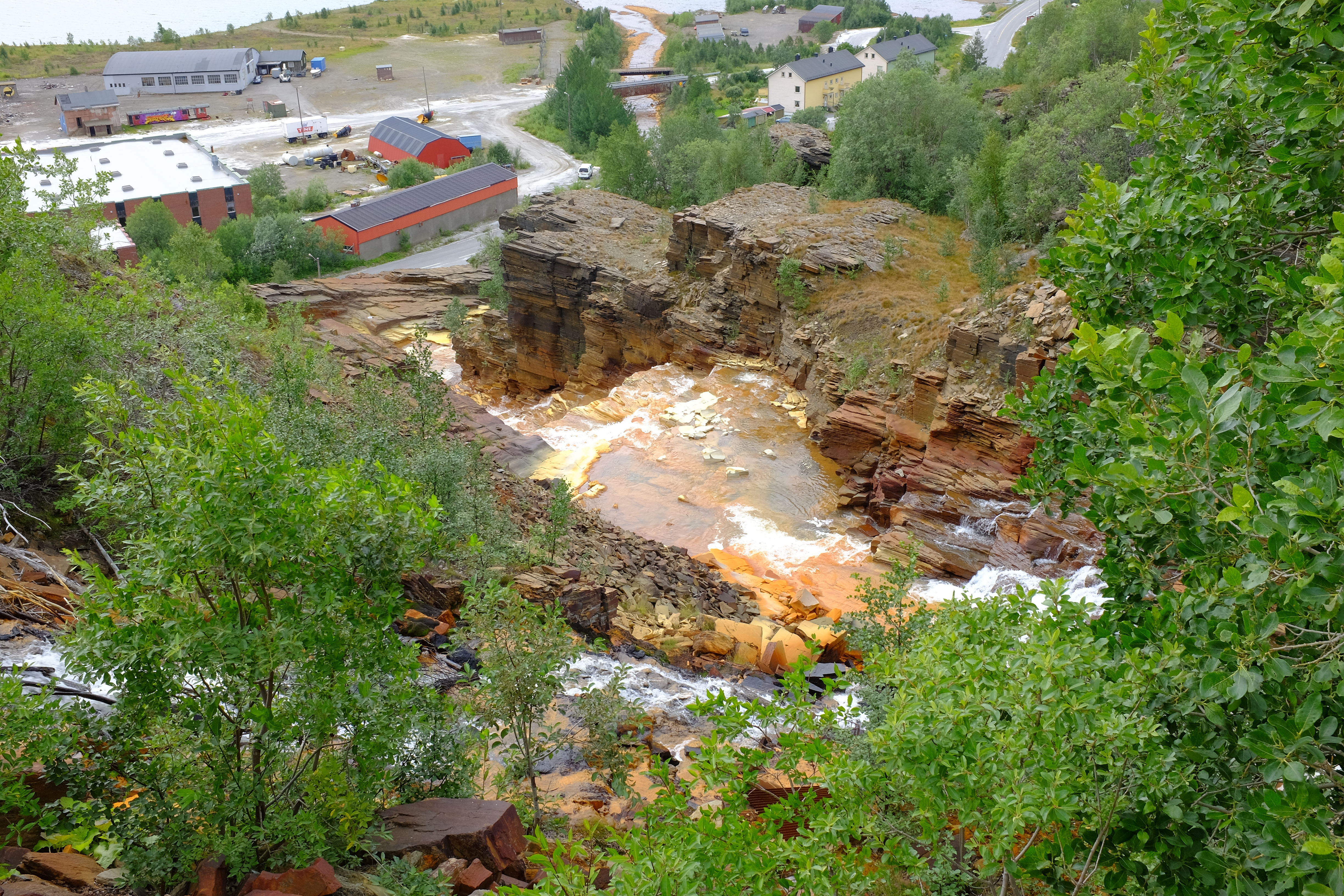 Gikenelva is a river belonging to Sulitjelma watercourse. Because of previous mining activity is the very polluted. Sulitjelma watercourse is a watercourse in Fauske municipality in Nordland. The main river watercourse is Sjønståelva.